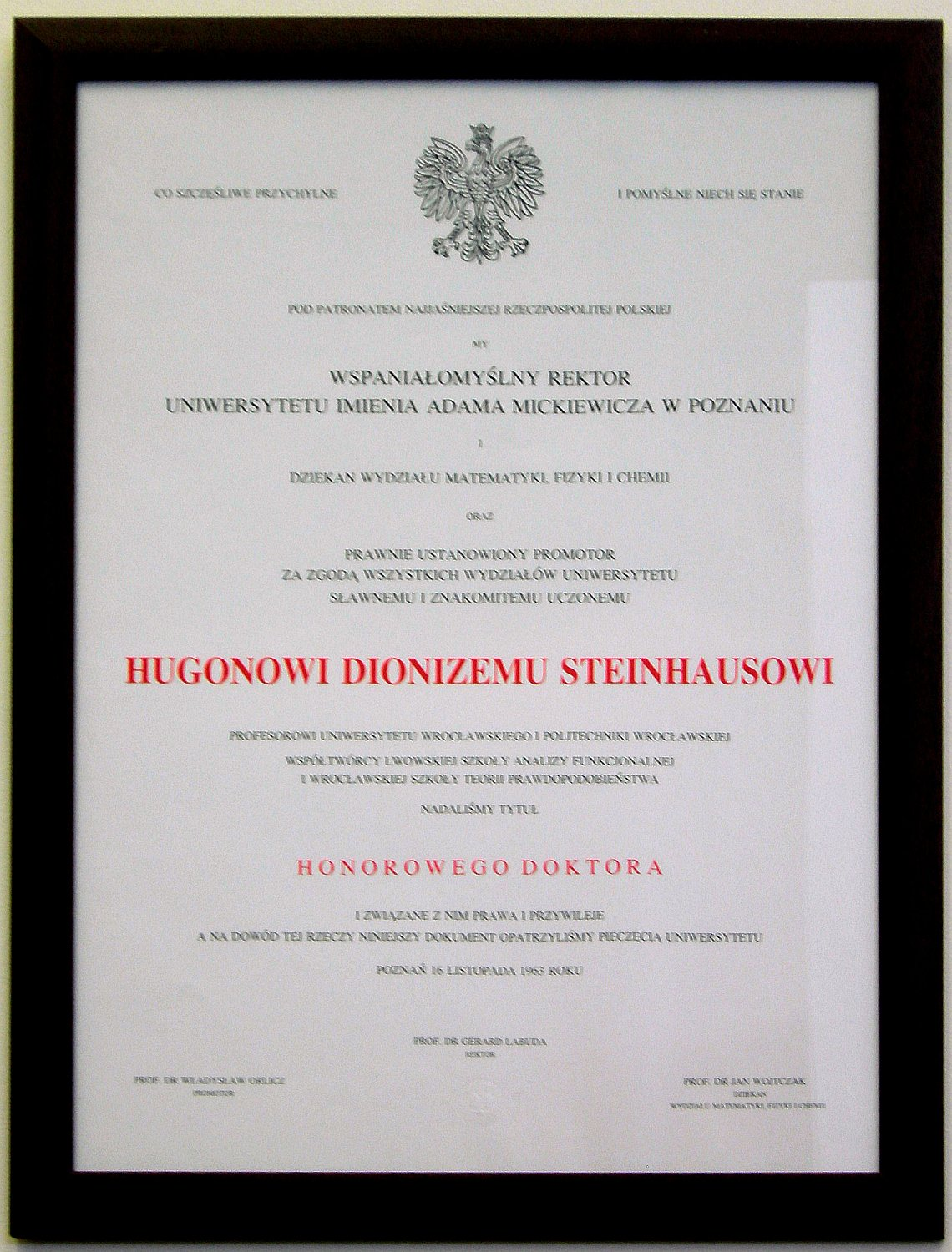 Honorary degree given to Hugo Steinhaus by Adam Mickiewicz University in Poznań